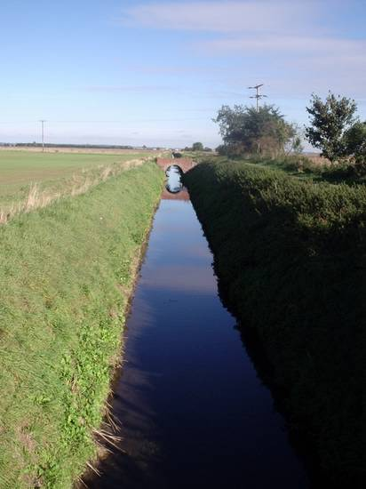 Axholme Light Railway Bridge over the Pauper's Drain. The last train ran on the Axholme light railway in the mid 1960s. Much of the line of the railway has now been ploughed up. Here one gets a real feel for the 'light' aspect of the railway.